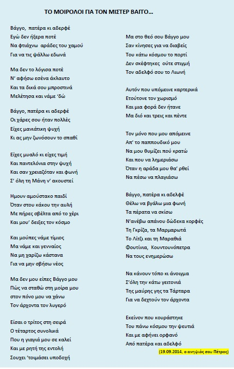 mani mourning songs vaggos